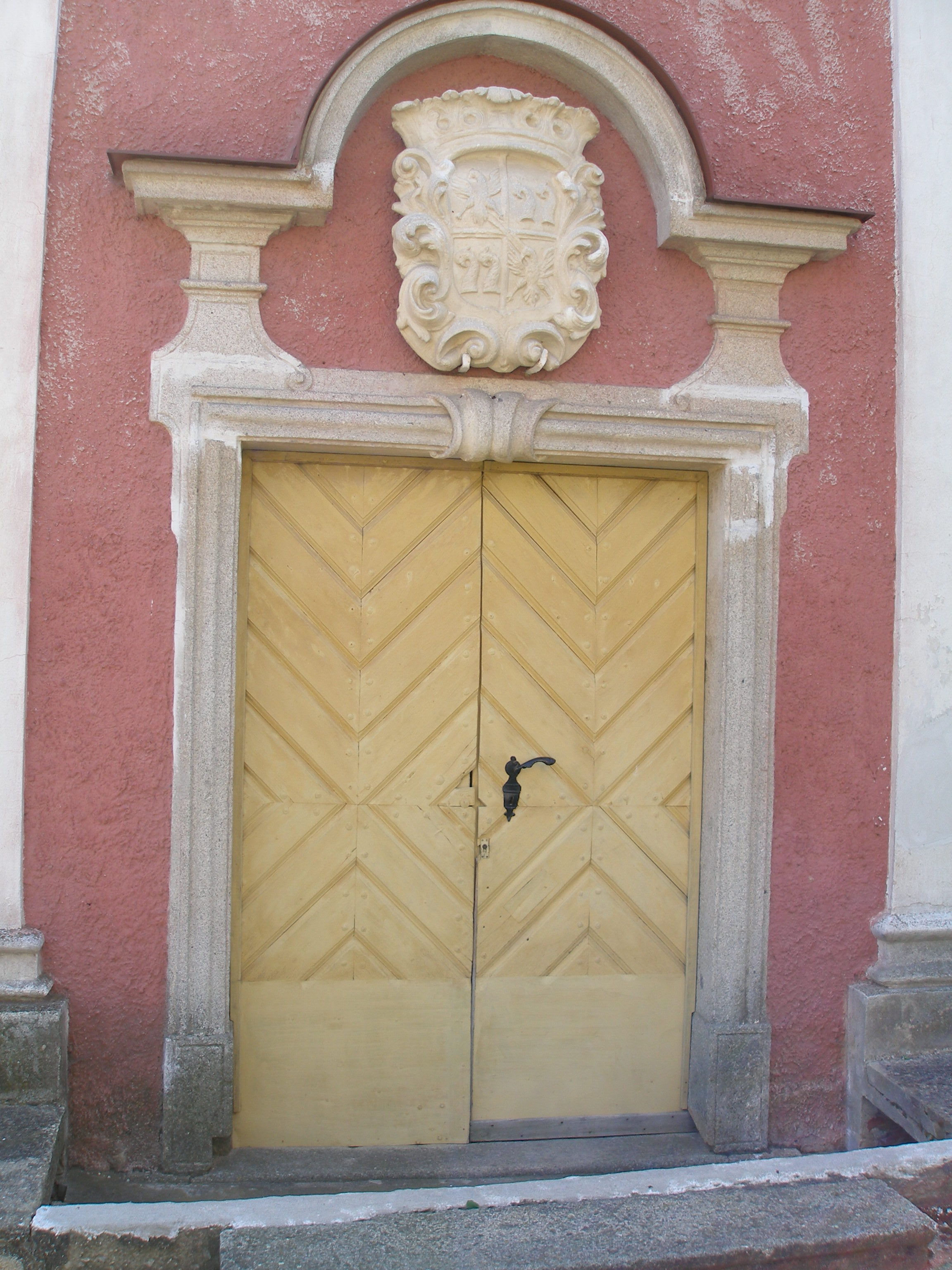 Lubnice (Moravia, Znojmo district), the church entrance